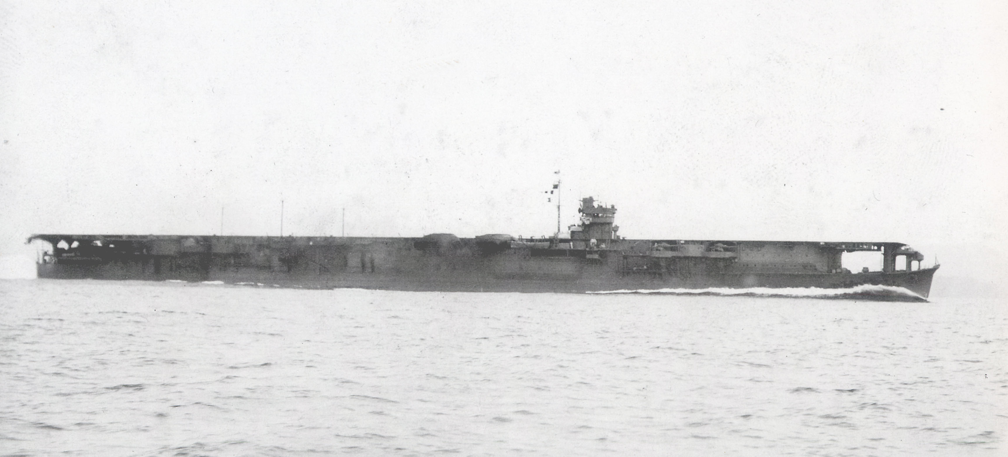 日本海軍航空母艦「蒼龍」。千葉県館山沖にて公試中の写真。Imperial Japanese Navy aircraft carrier Soryu rushed on trials, Tateyama, Chiba Prefecture.